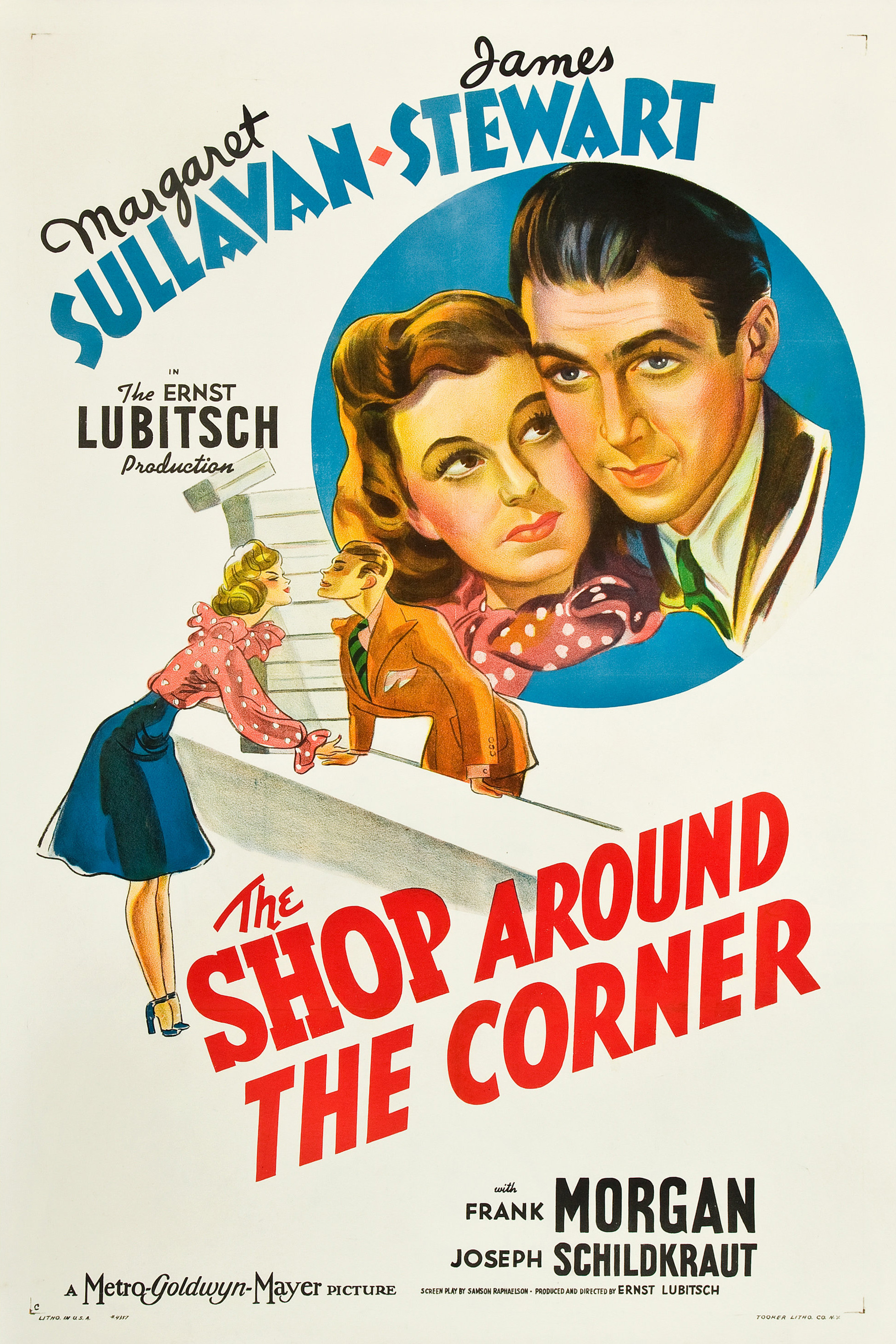 "Style C" poster for the theatrical run of the 1940 American film The Shop Around the Corner.